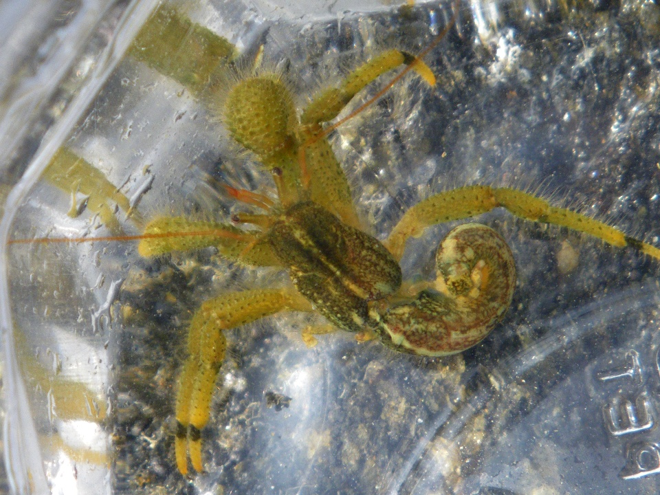 Pagurus nigrofascia Komai, 1996. at Nagasaki